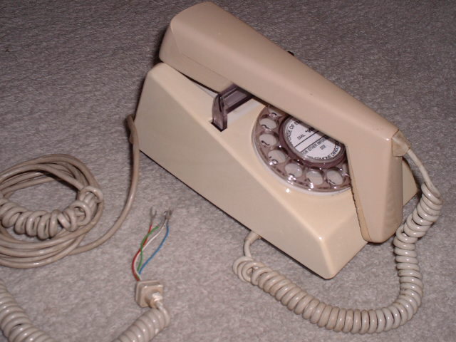 Telephone